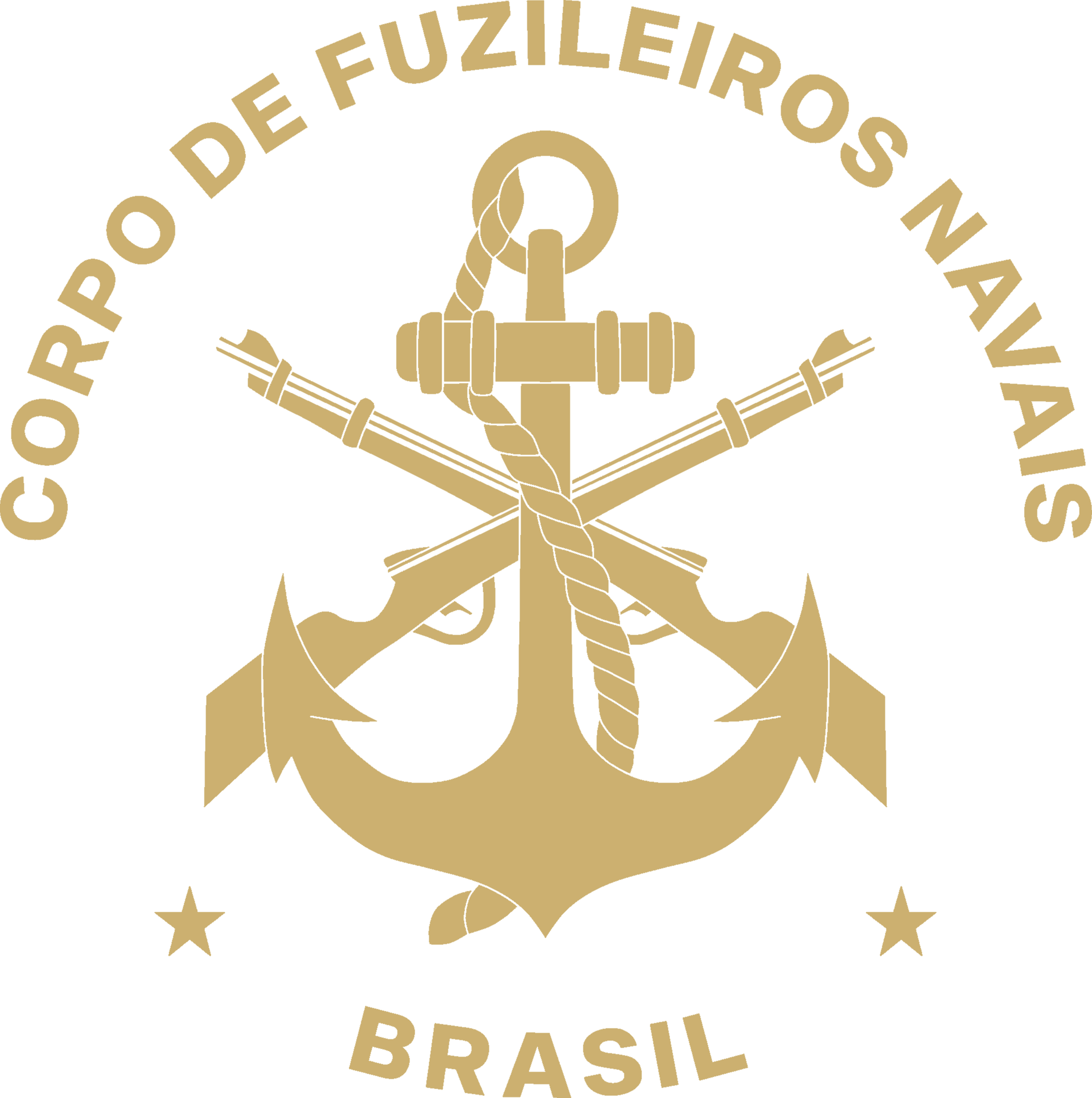 Brazil marine corps badge.